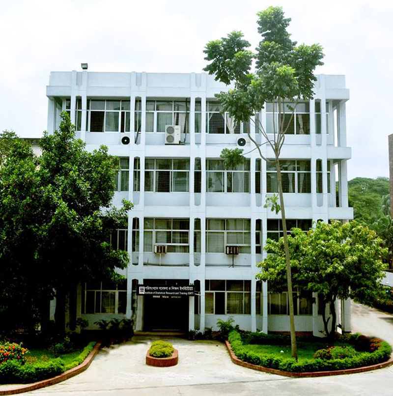 The new look of Institute of Statistical Research and Training, University of Dhaka